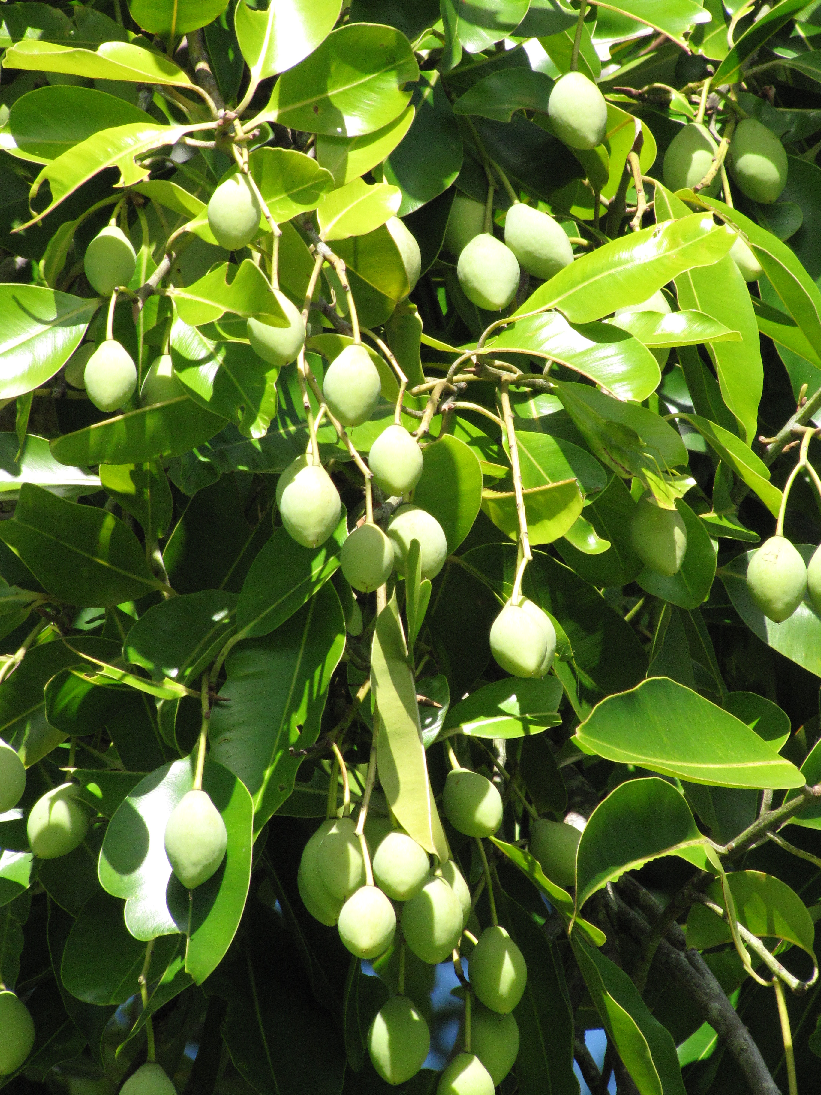 Calophyllum soulattri (Nicobar canoe tree) Fruit and leaves at Kahanu Gardens NTBG Kaeleku Hana, Maui, Hawaii. November 04, 2009 #091104-9103 Image Use Policy